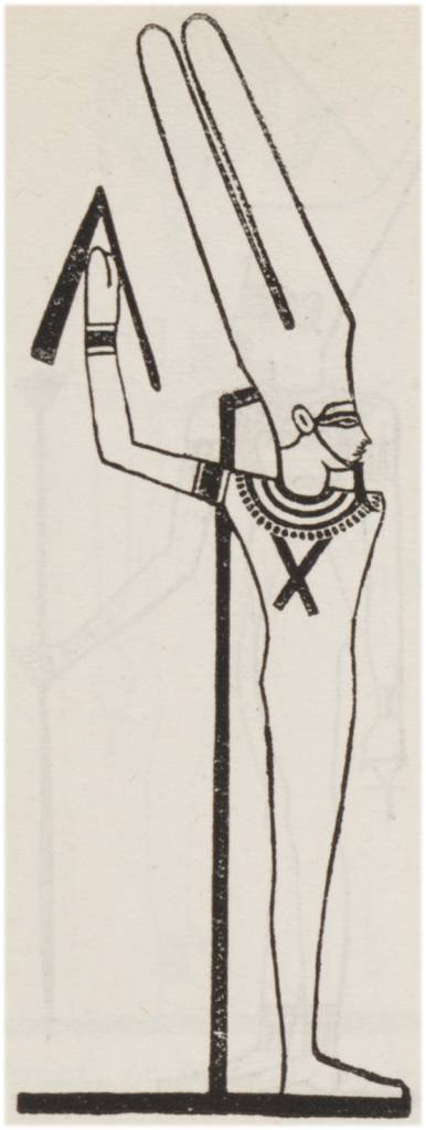 God with twin plumes on his head, with raised arm (to the square) uplifting a flail.